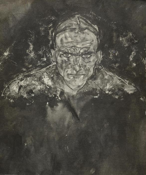 Writer Robert Müller (1887–1924)